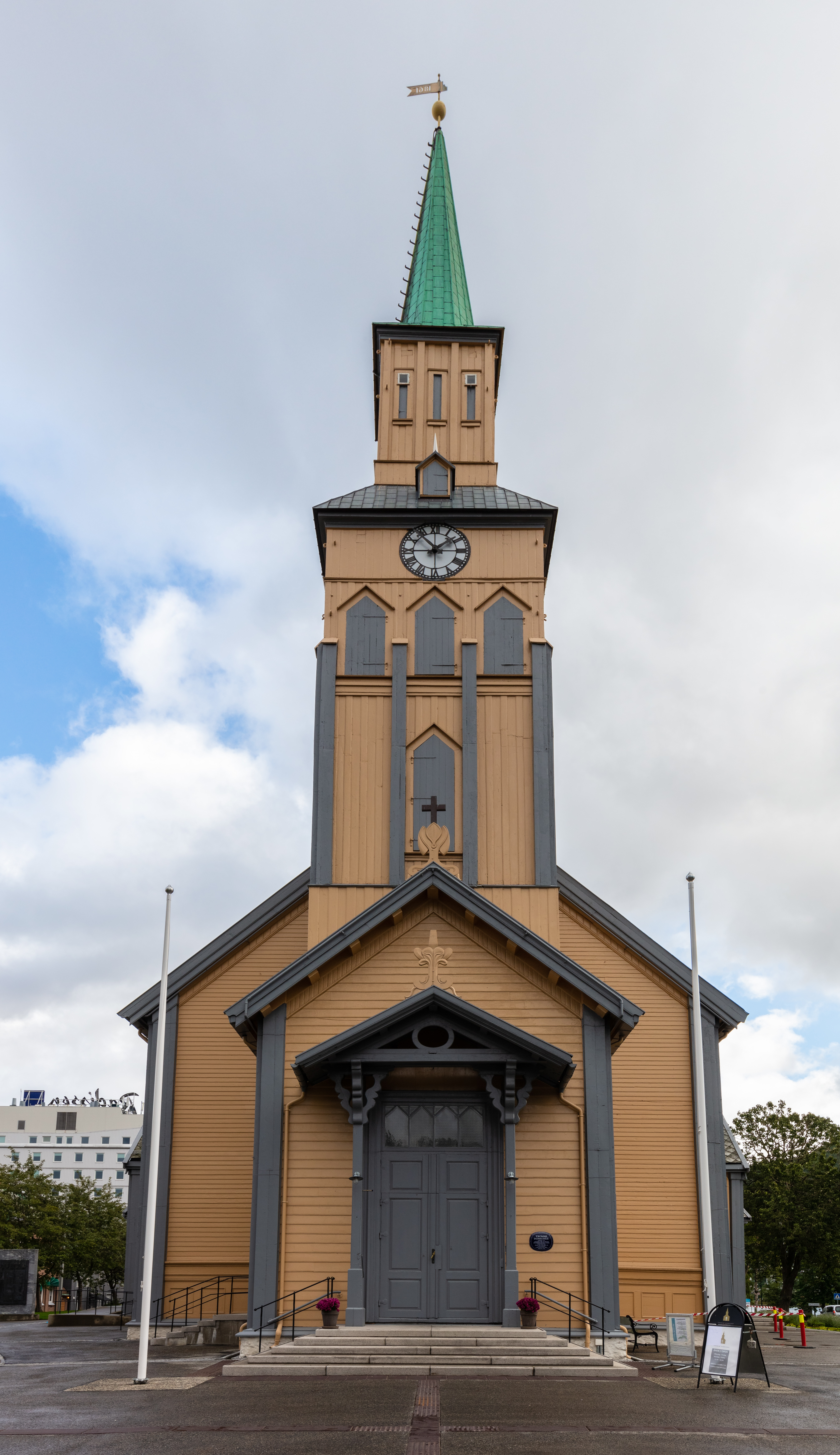 Cathedral, Tromsø, Norway